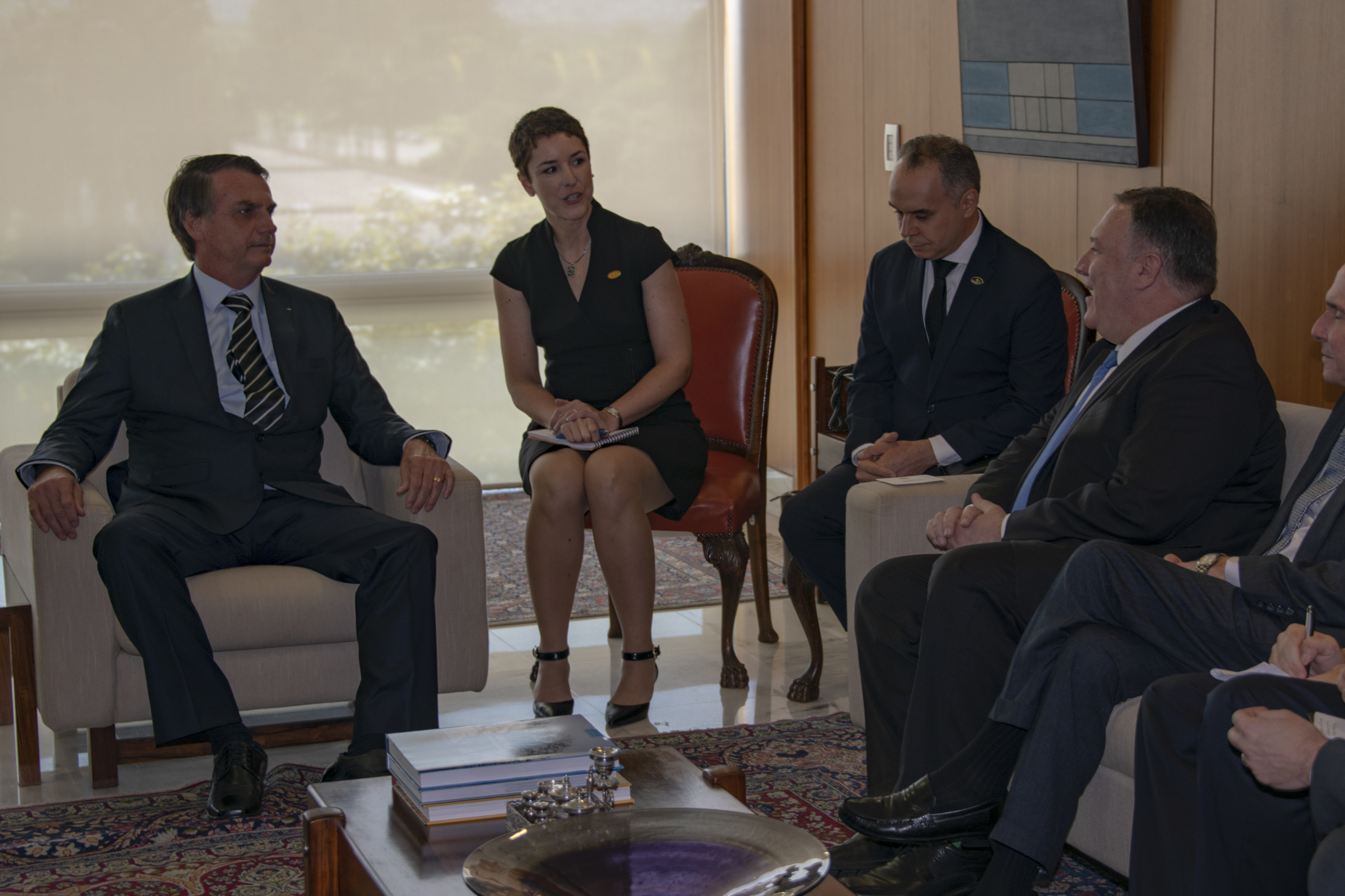 U.S. Secretary of State Michael R. Pompeo meets with Brazilian President Jair Bolsonaro, in Brasilia, Brazil, January 2, 2019. [State Department photo by Ron Pryzsucha/ Public Domain]